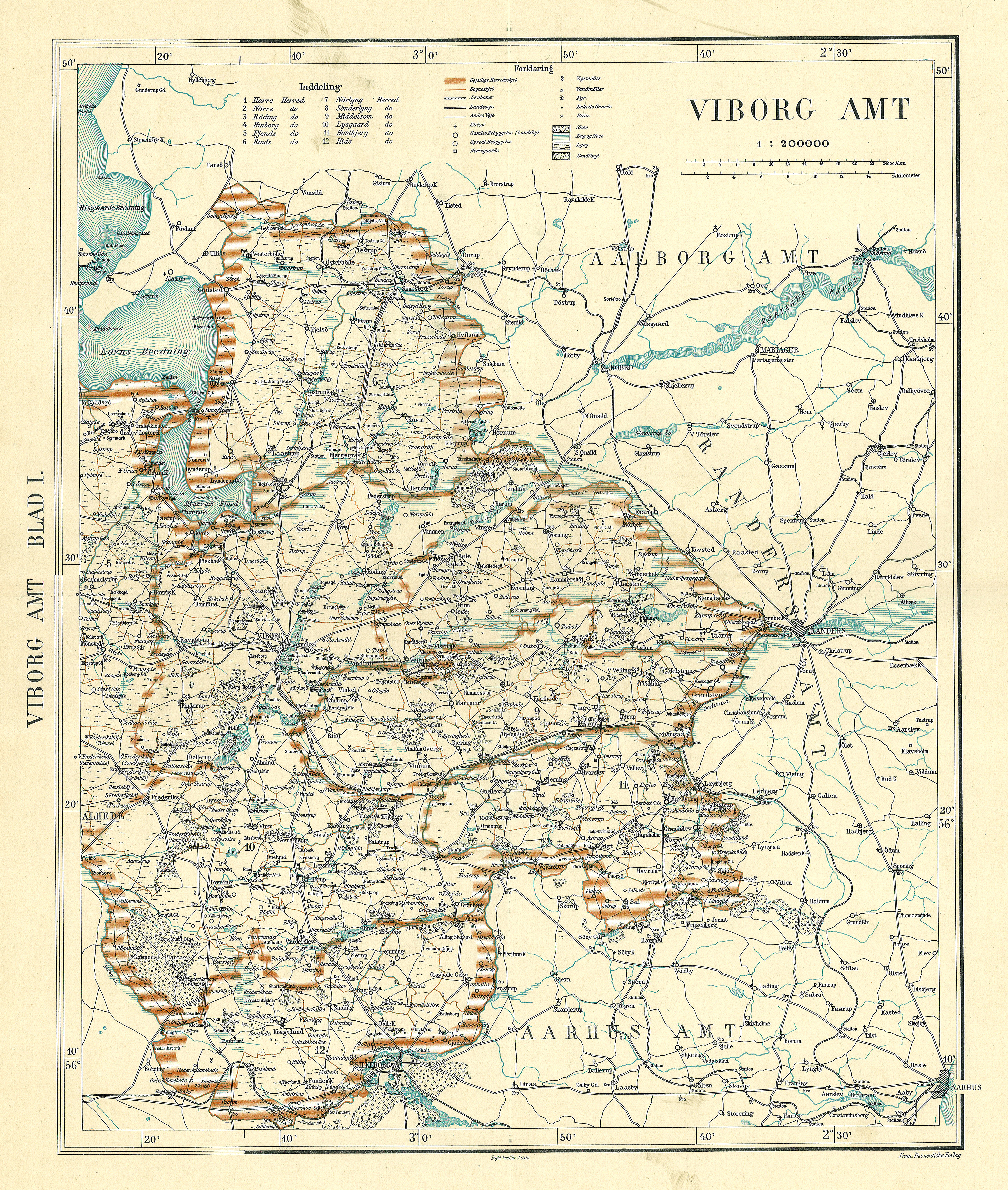 Map of the eastern part of Viborg County in Denmark